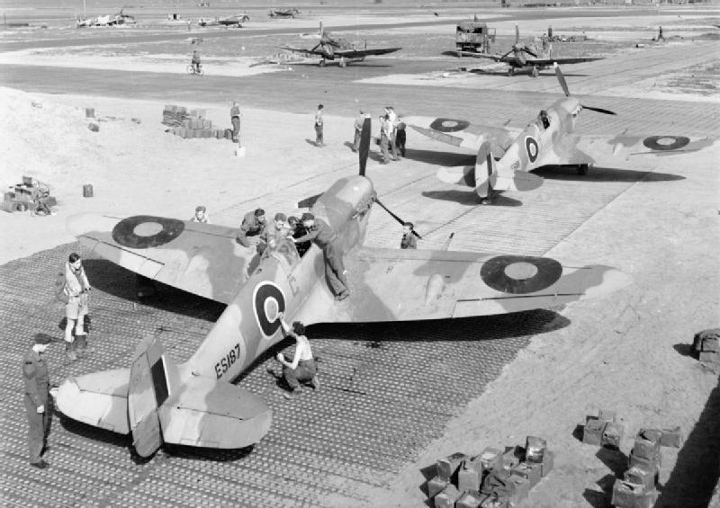 Royal Air Force Operations in the Middle East and North Africa, 1939-1943. Supermarine Spitfire Mark Vs of No. 322 Wing RAF, parked in their dispersals at Tingley, Algeria. In the foreground Mark VBs ES187 'C' and ES191 'T' of No. 154 Squadron RAF are being brought to readiness for a patrol. Note the extensive use of pierced steel planking (PSP) to surface the dispersals and taxiways.